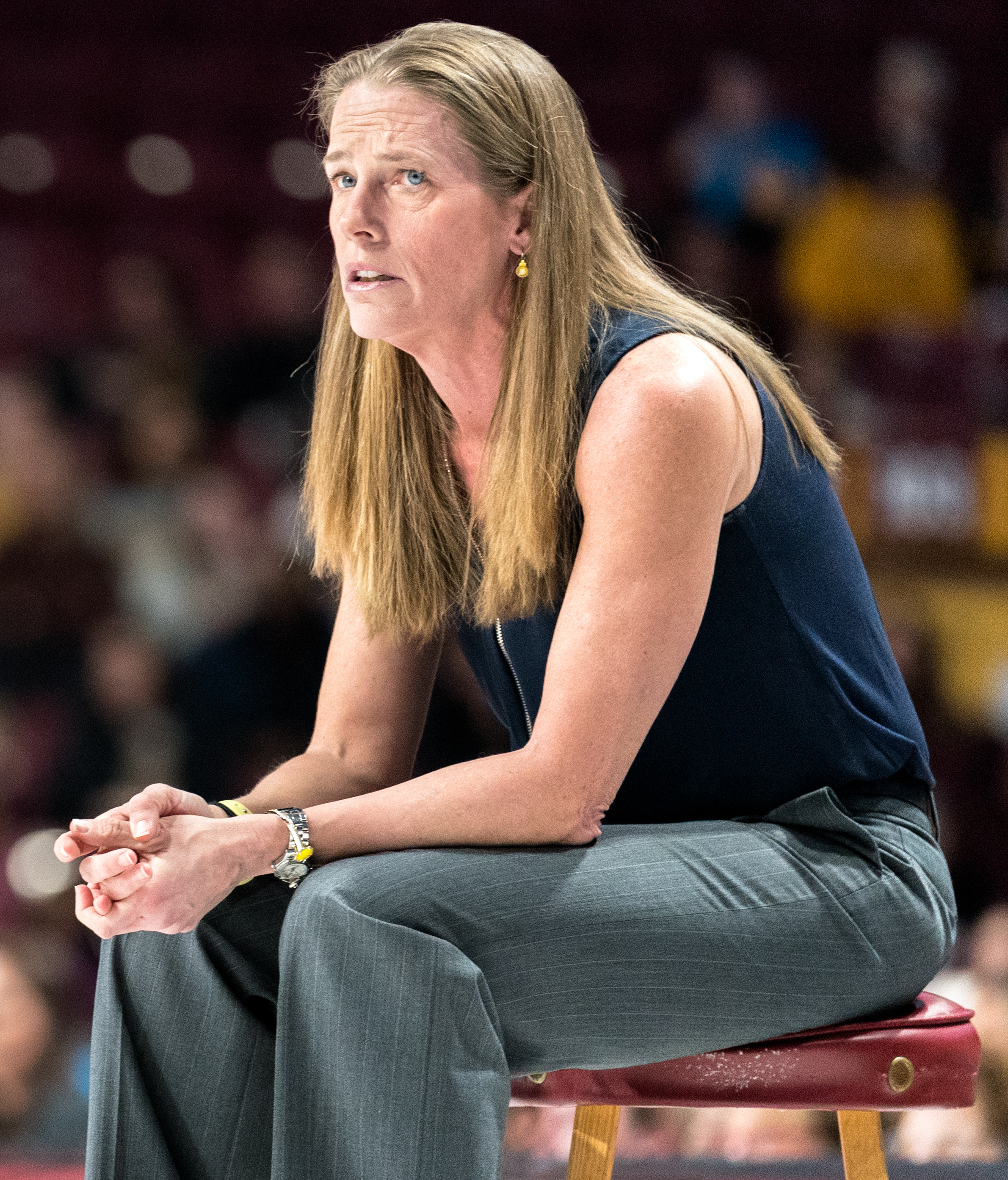 Kim Barnes Arico, Head Coach of Michigan Wolverines women's basketball team, coaching during a game against Minnesota